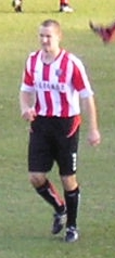 Footballer Andy Frampton, in Brentford colours